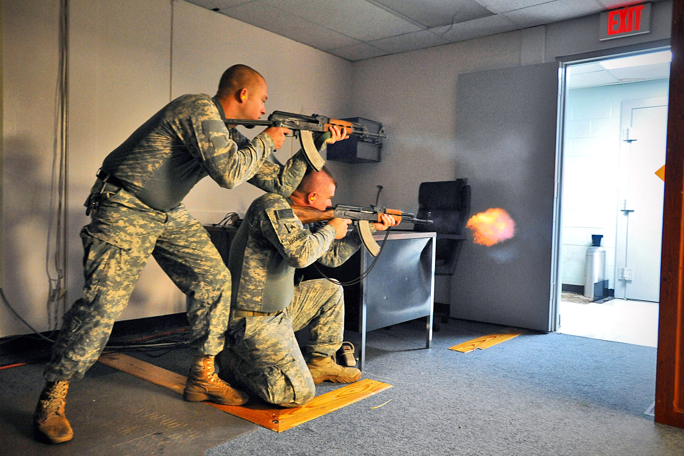 CHARLESTON, S.C. (Oct. 27, 2009) Army Sgt. Brad Paxton and Sgt. Tim Brooder, assigned to Superior Training for Superior Response (STSR) and Goose Creek Police Department, provide instruction on how to utilize the high/low technique to maximize spread of fire toward aggressors to students assigned to Naval Weapons Station Charleston. (U.S. Navy photo by Machinist's Mate 3rd Class Juan Pinalez/Released)